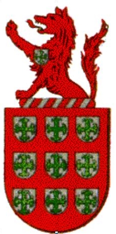 The blazon of moreiras.